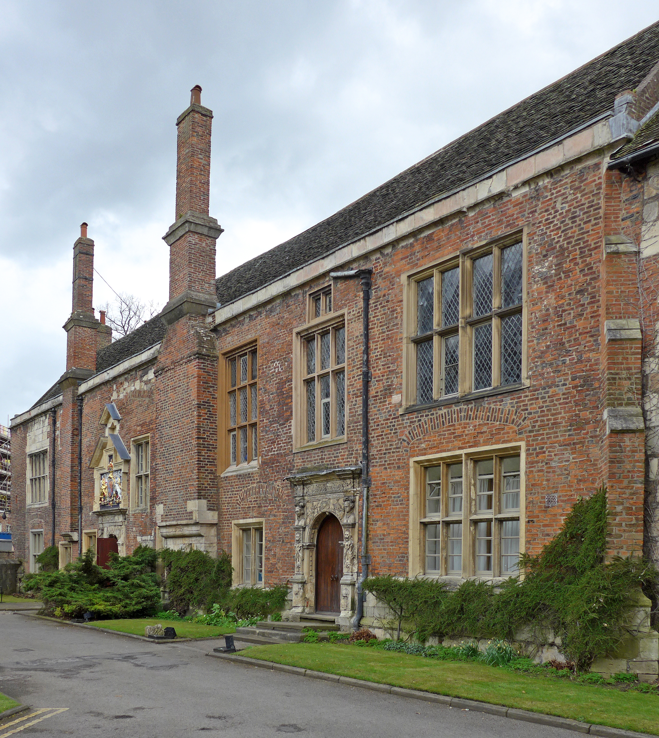 York